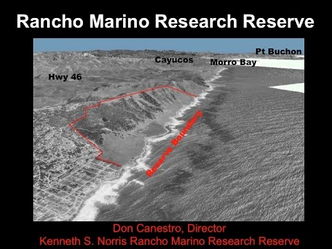 Photo-map of reserve